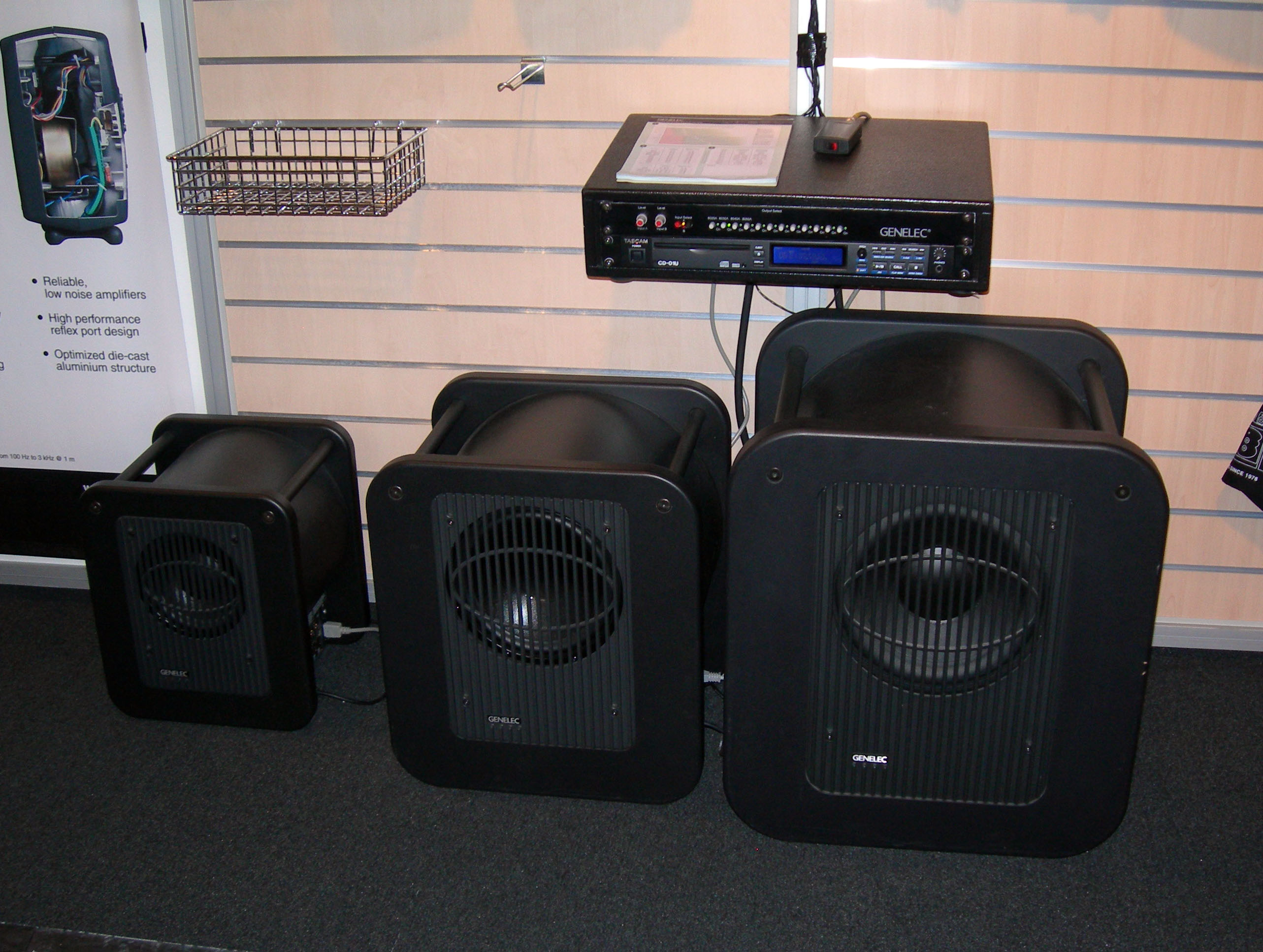 Genelec Active Subwoofers: 7050B, 7060B, 7070B, IBC 2008, Amsterdam